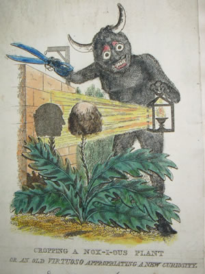 Contemporary print; caricature of Dr Robert Knox, after his involvement in the Burke and Hare murders